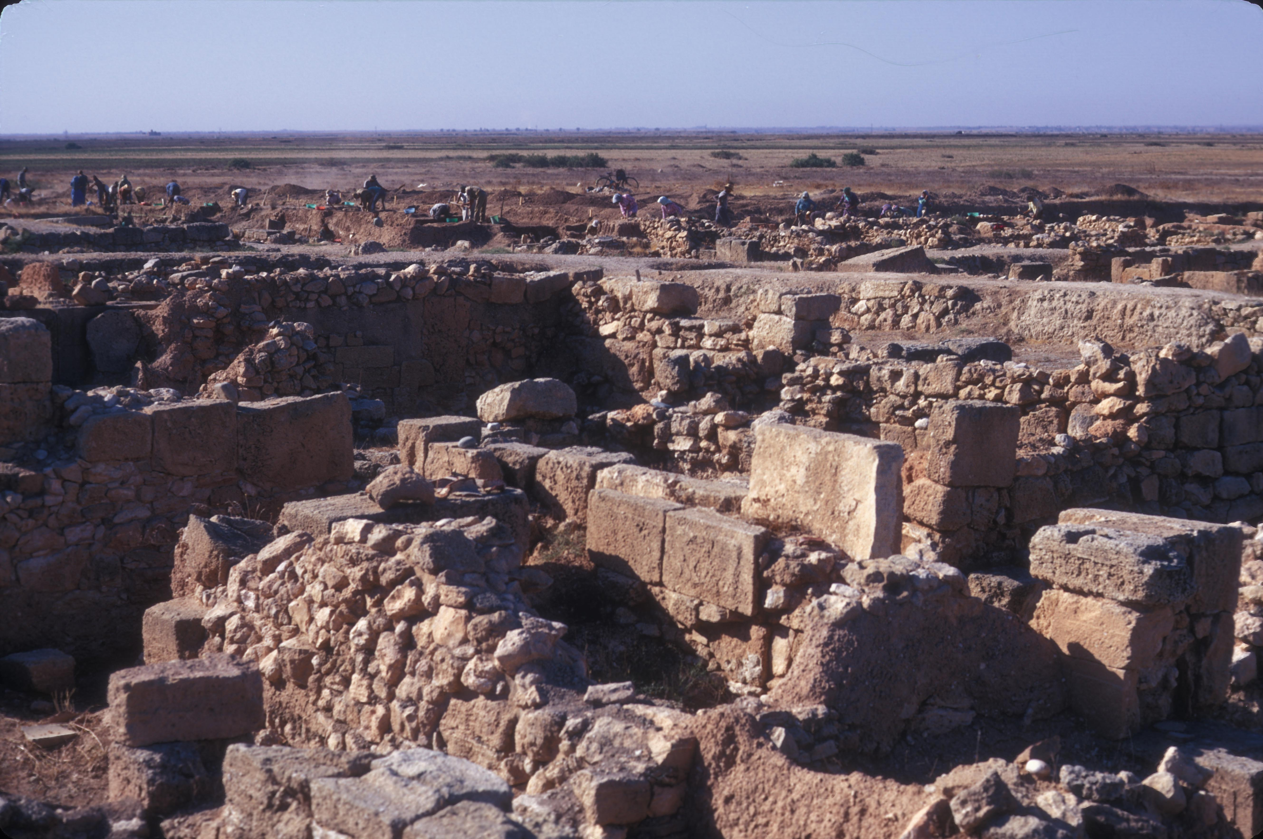 RUINS FROM THE MID 2ND MILLENNIUM OF A CITY WHICH PROFITED FROM THE WORKING OF THE COPPER MINES. SUBJECT TO EXTENSIVE MYCENEAN INFLUENCE BUT WAS RAVAGED BY THE SEA PEOPLES AND BY EARTHQUAKE. DECLINED AND THE POPULATION MOVED TO THE COAST AND FOUNDED SALAMIS